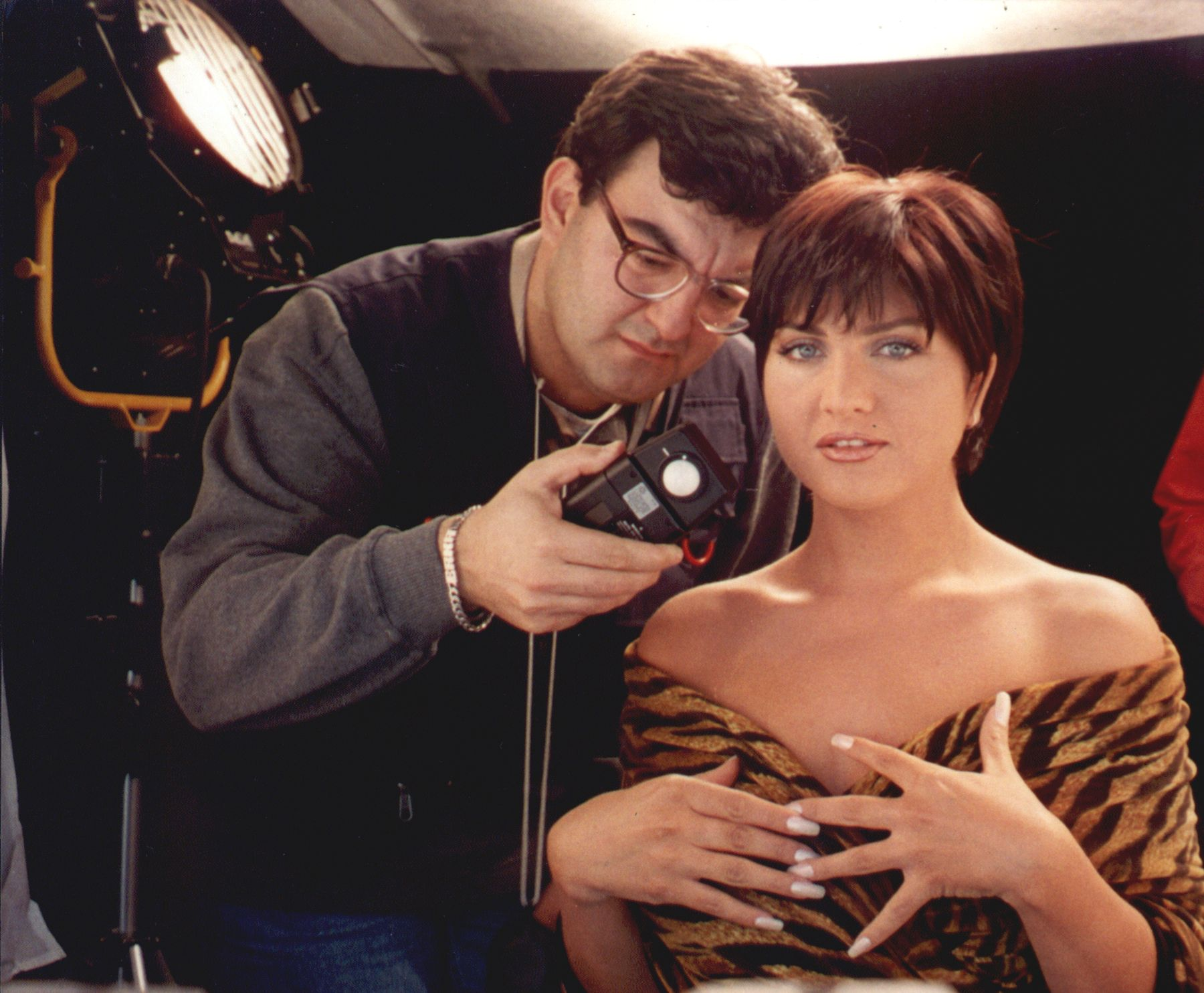 Use of the MINOLTA AUTOMETER IIIF by the Turkish Cinematographer Erkan Umut in a music video set for Sibel Can, the famous Turkish singer (1996)